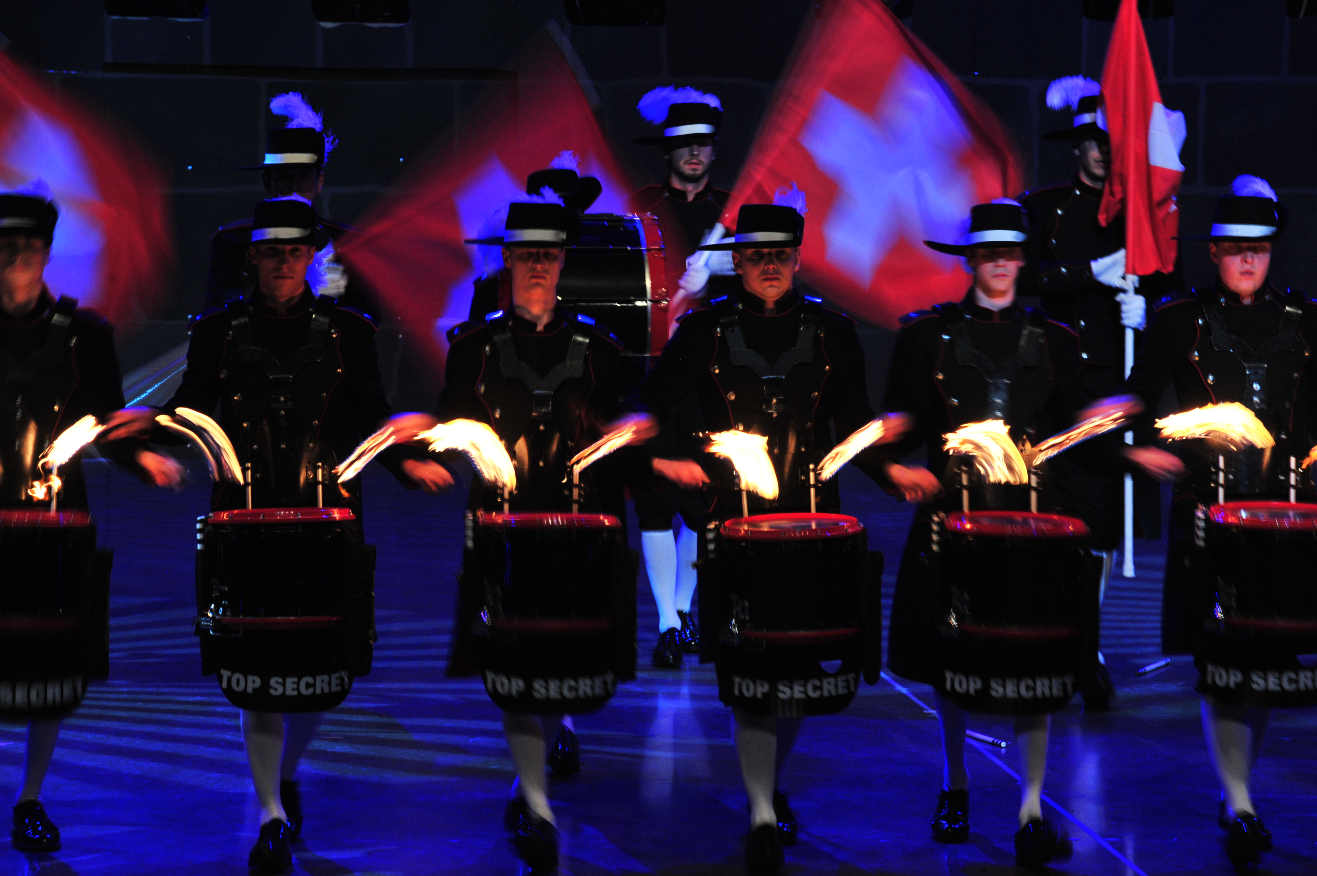 Switzerland's Top Secret Drum Corps literally lit their instruments on fire. Photos by SSG Chris Branagan, TUSAB Public Affairs